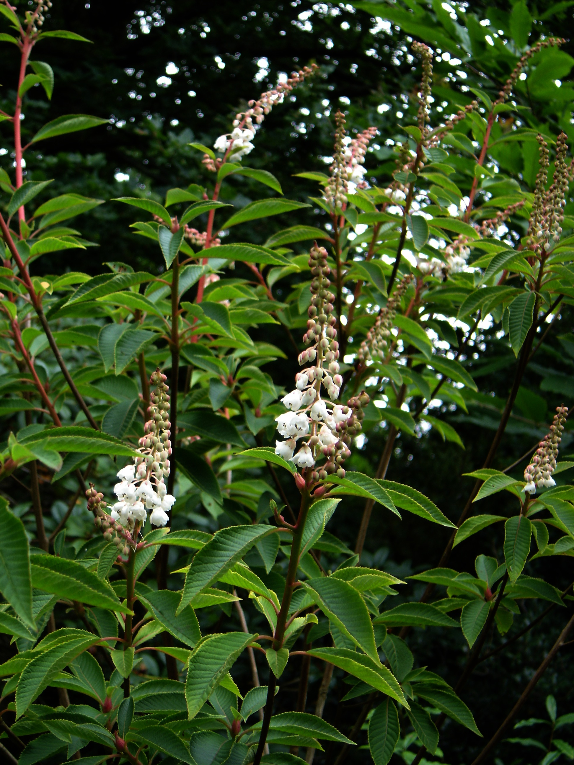 Ah - I am so excited about this one - ever since I saw it in Roy Lancaster's book when I started gardening seriously about 20 years ago. Ever since then I've wanted to find a garden to grow it in. Any ericaceous plants flowering at this time of year are especially valuable of course.